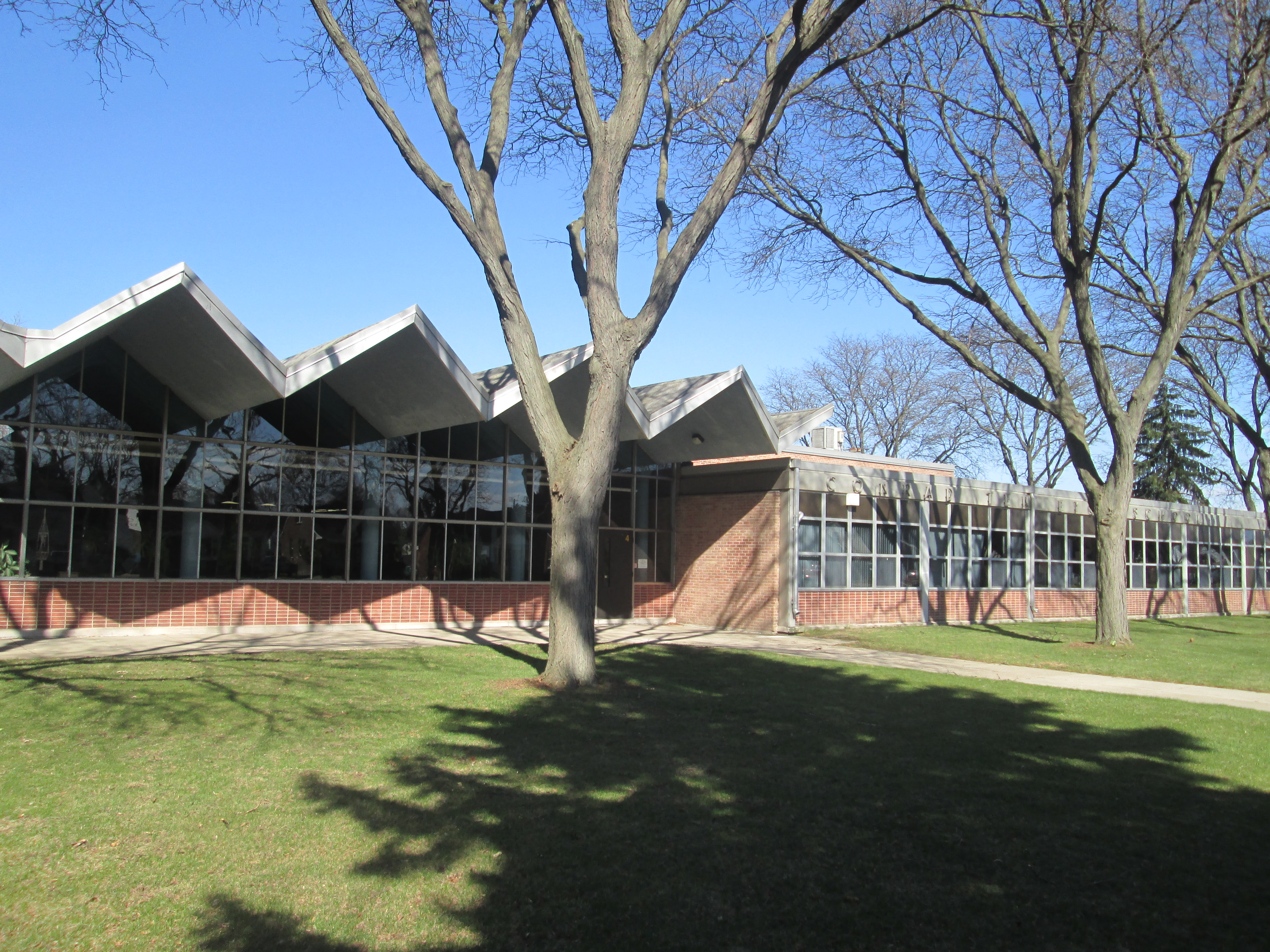 Ten Eyck Administrative Center, Dearborn Public Schools, Michigan - 18700 Audette, Dearborn, MI 48124 - Originally Conrad Ten Eyck Elementary School, oldest part of the building was built in 1945 with major expansion in 1956